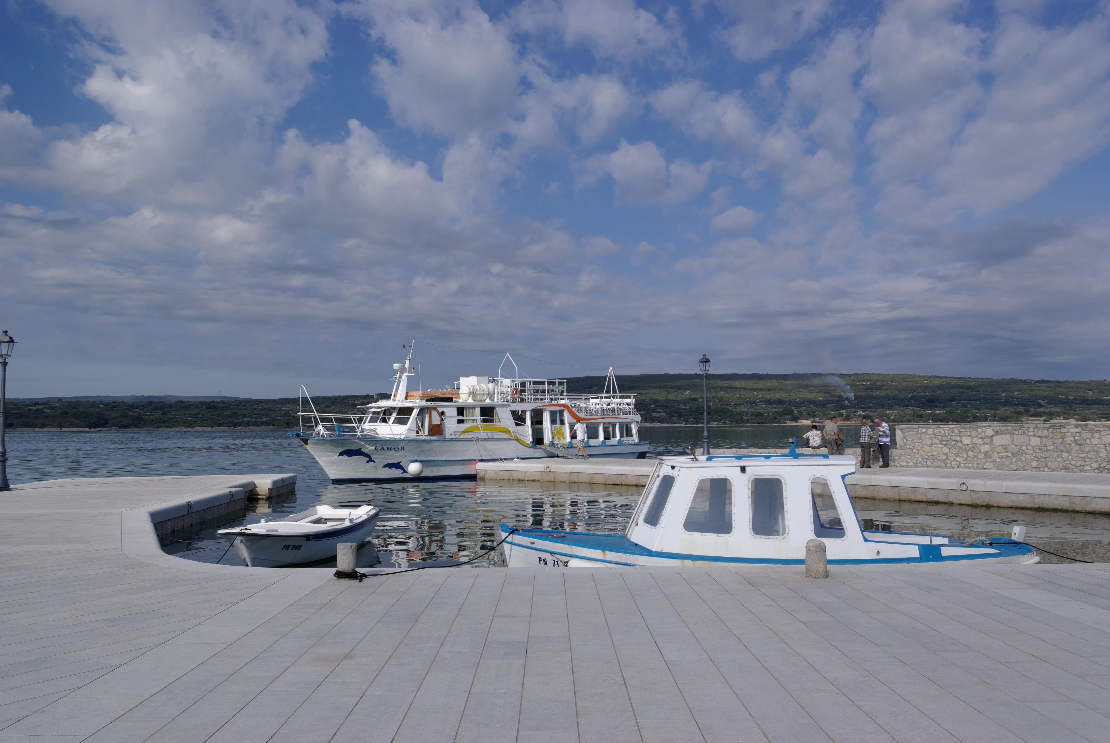 Croatia, Košljun, harbour